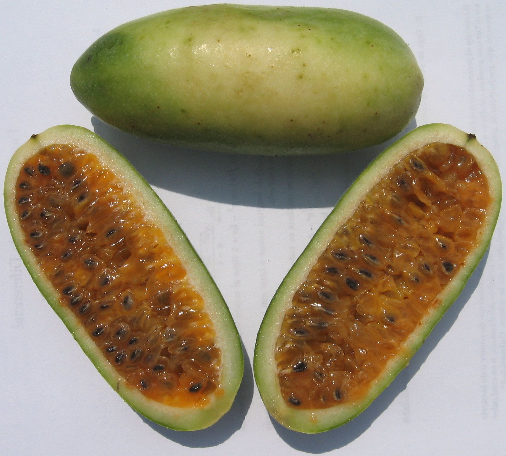 Two curubas (banana passionfruit), one of them longitudinally cut to show the edible pulp in which the seeds are embedded. Picture taken by Fibonacci.